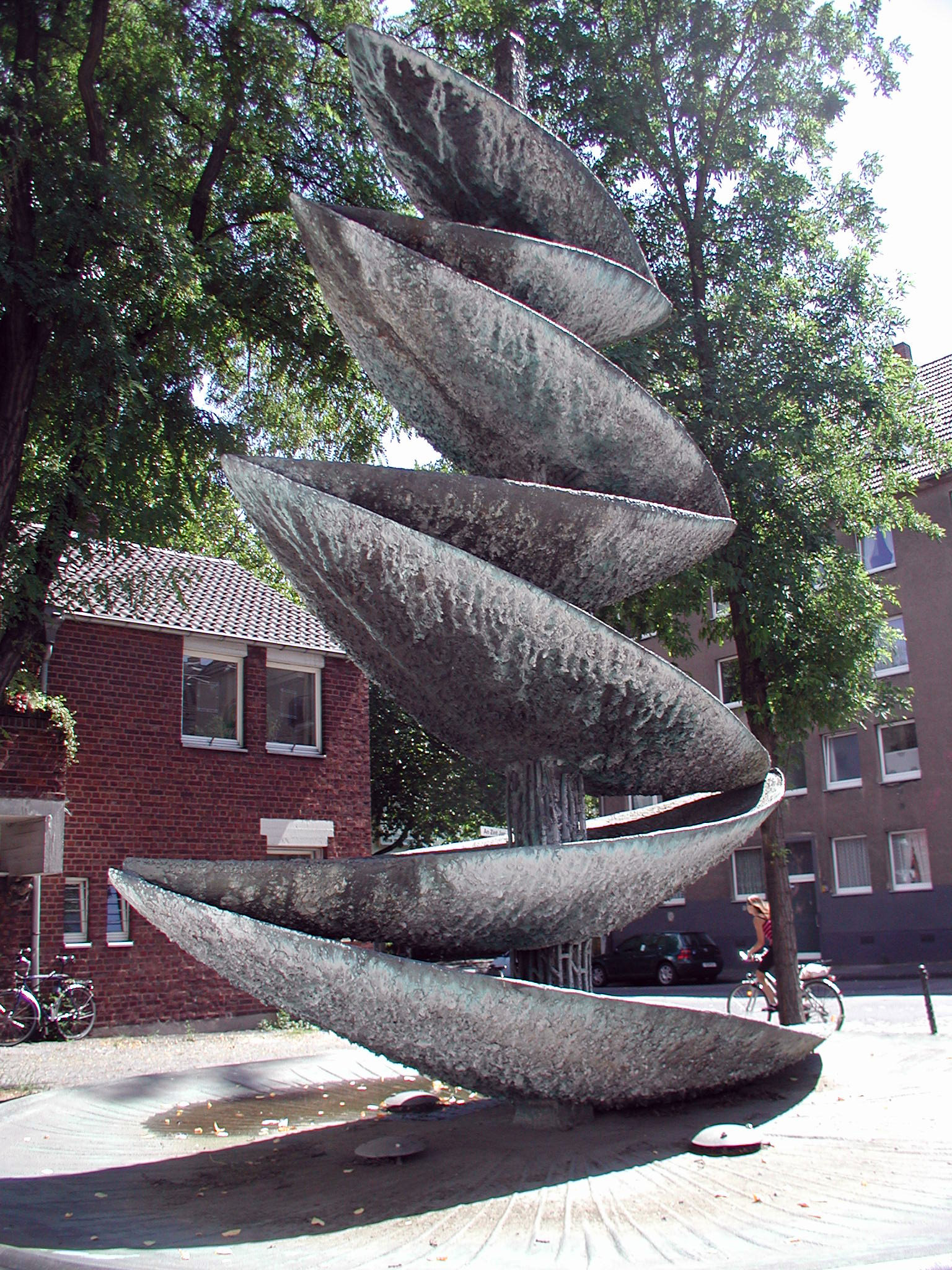 Cologne, fountain "Arnold von Siegen "